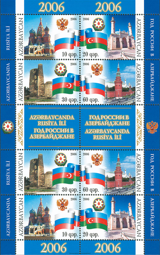 Stamp of Azerbaijan